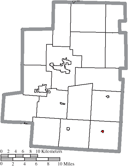 Map of the municipal and township boundaries of Morrow County, Ohio, United States, as of the 2000 census, with the location of the village of Sparta highlighted. Township borders are shown only in unincorporated areas in order to differentiate incorporated and unincorporated areas more clearly.